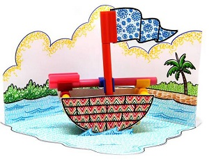 ship Craft made with Connector Pen